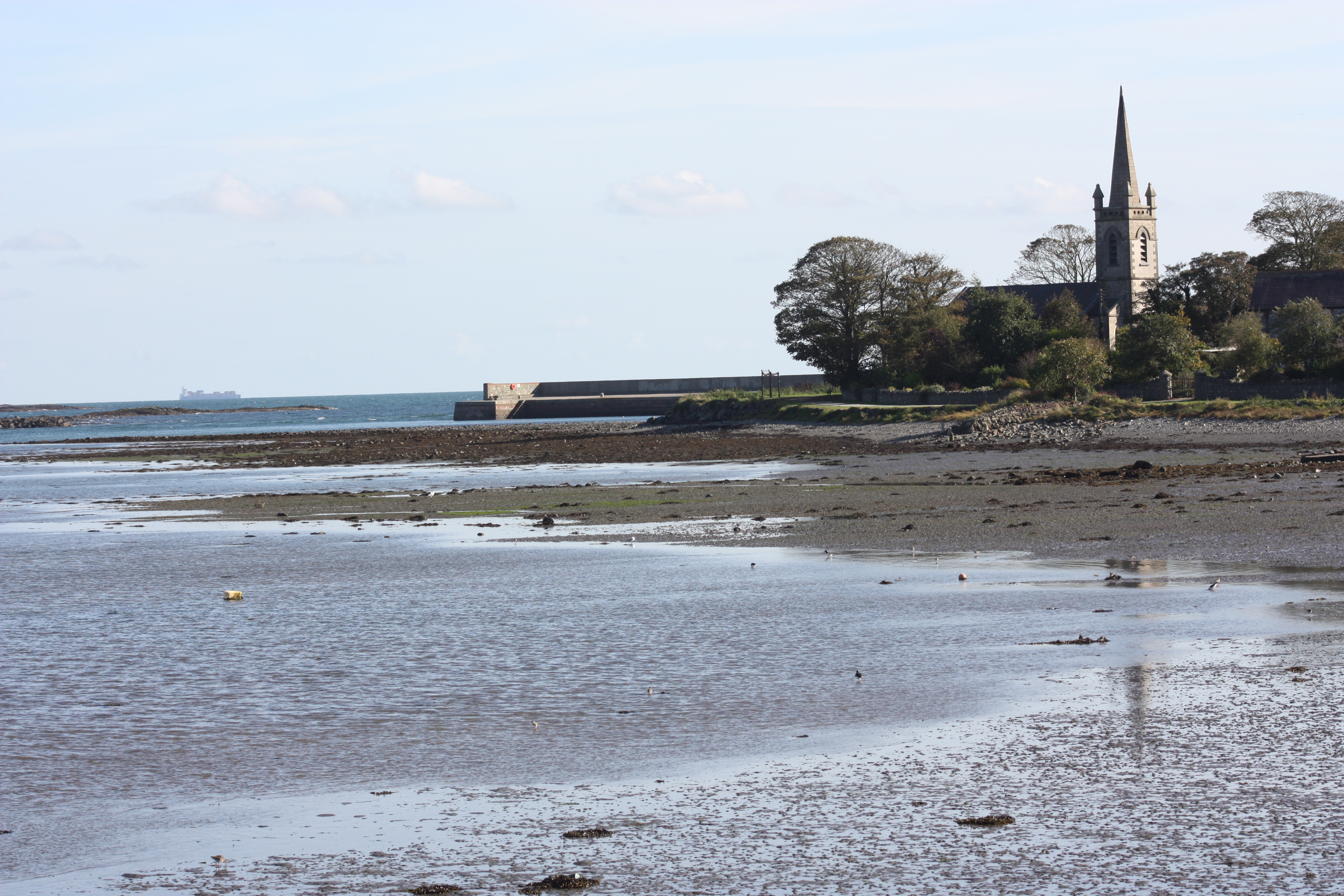 Killough harbour, Killough, County Down, Northern Ireland, October 2009